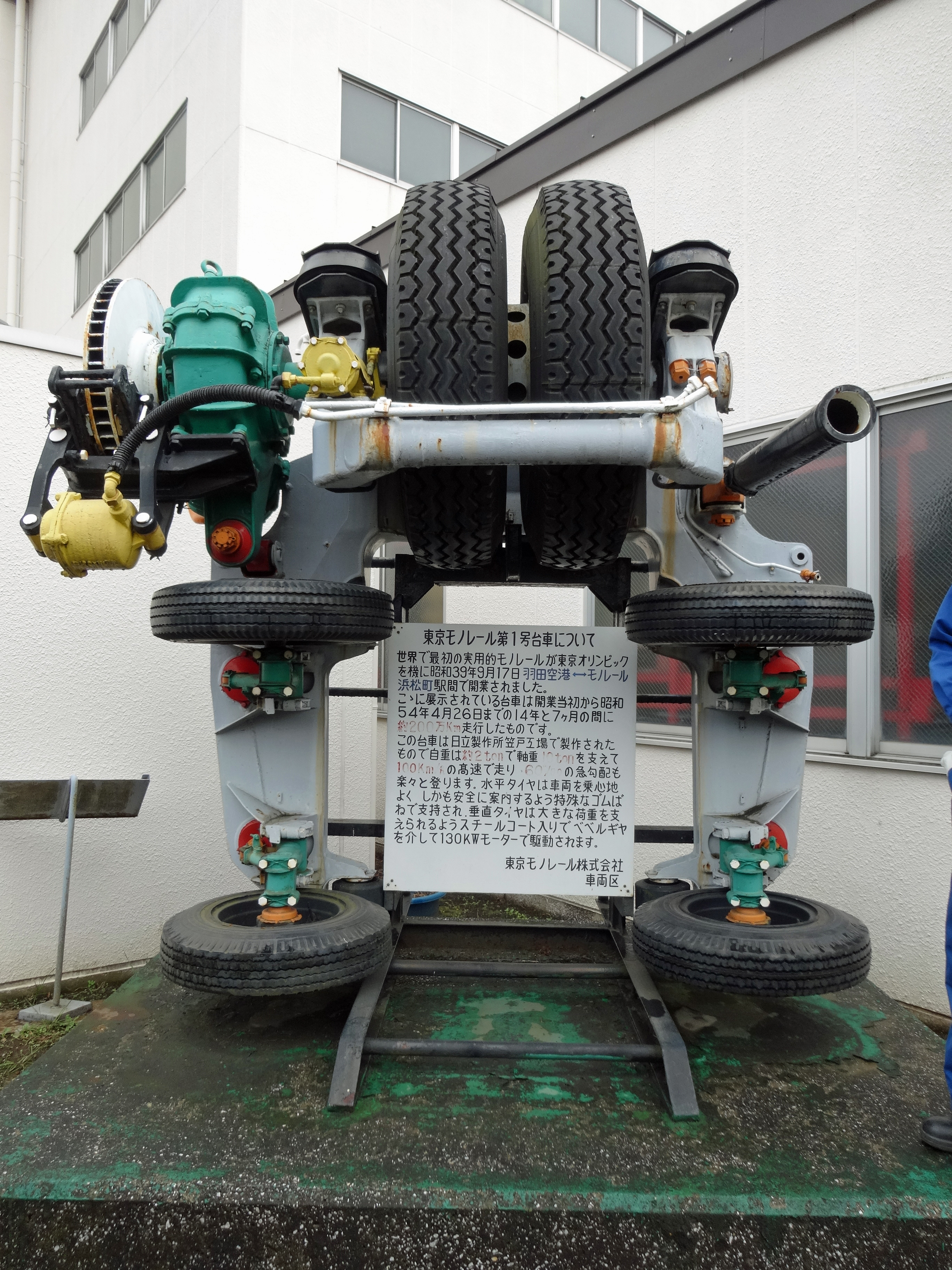 The first bogie truck of Tokyo Monorail preserved at the Showajima Depot